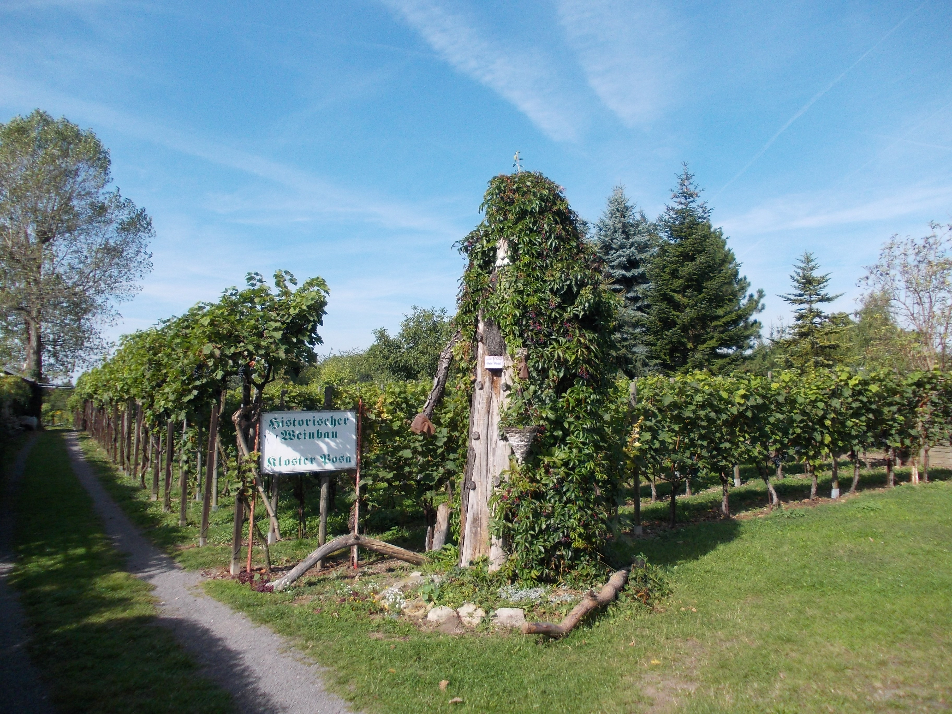 Historic vineyard at Posa monastery (Zeitz, district of Burgenlandkreis, Saxony-Anhalt)